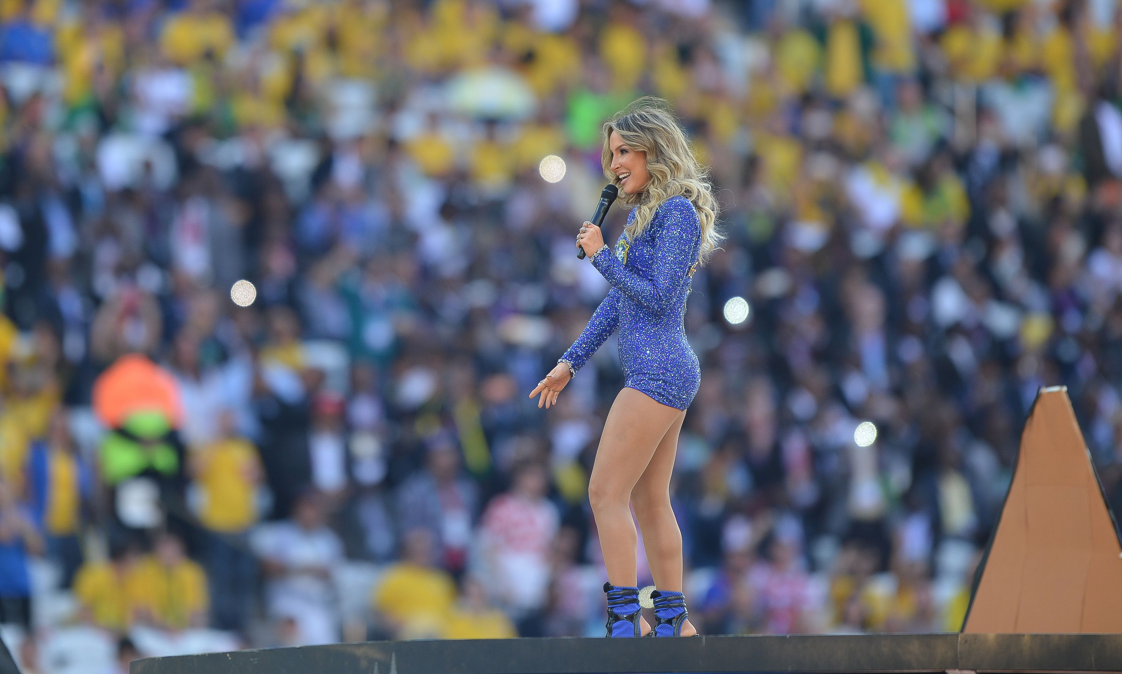 The opening ceremony of the FIFA World Cup 2014